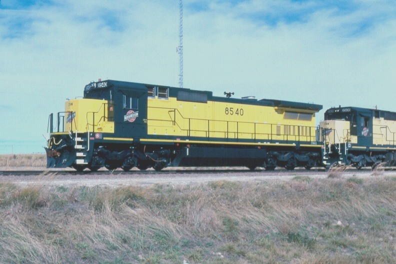 Chicago and North Western Railway (CNW) locomotive #8540 General Electric (GE) model C40-8 “Zito” safety yellow paint scheme Photo taken by Russell Meier on October 10, 1990 at Shawnee, Wyoming. At this time of the day, this part of the railroad was closed for maintenance. The crew ran a set of light locomotives, including #8540, to this location to eat lunch. Since the locomotives were parked next to the highway, it was easy to get several shots of each locomotive. This was the best shot. This image was scanned from a Kodachrome 64 slide. To make it look more like the original slide, the scanned image was lightened-up, and dust was removed with MS Picture It! 99 before uploading to Wikipedia.